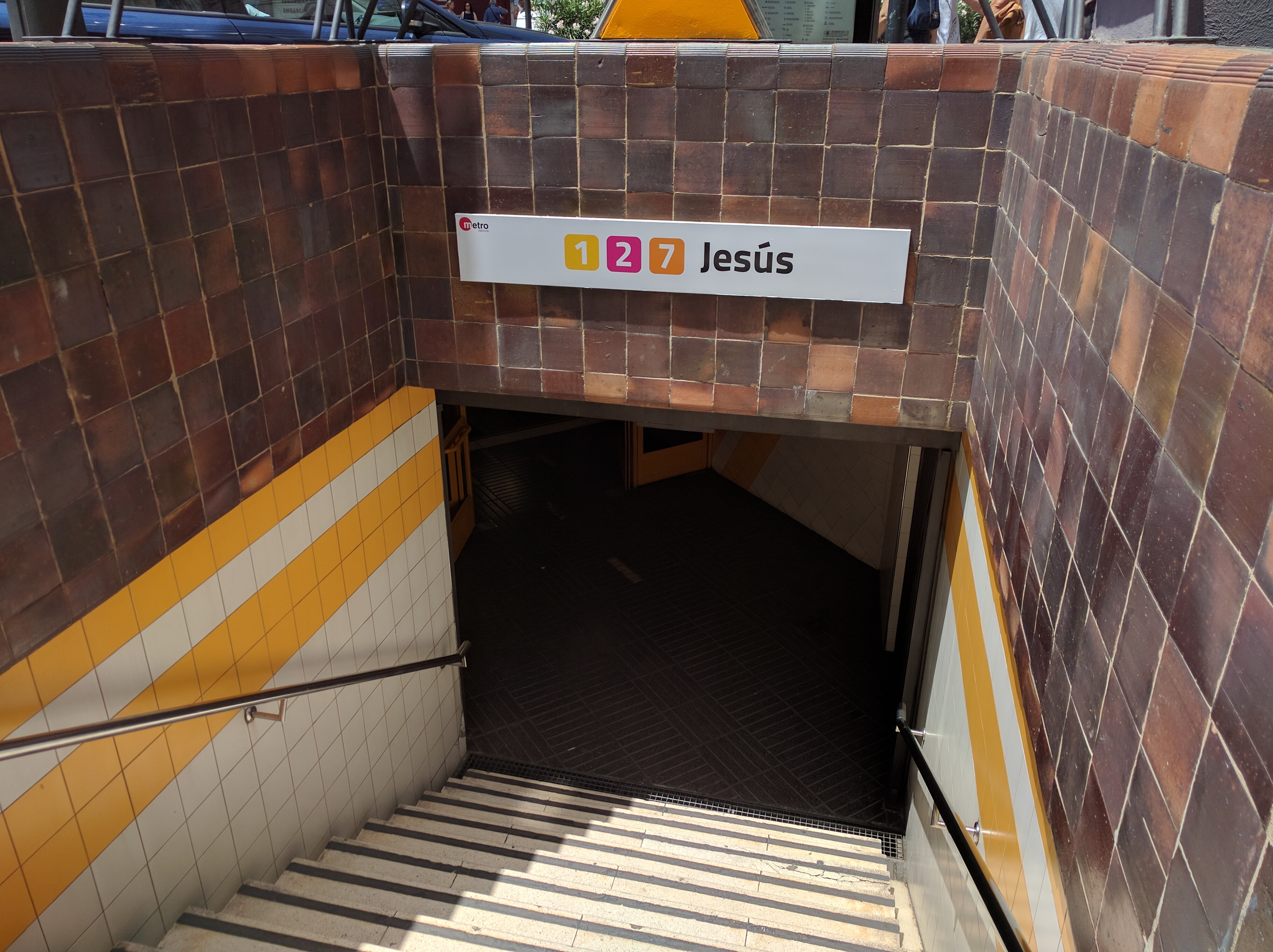 Photo of the last concentration of the Association of Victims of the Metro Accident of the July 3rd, 2006.